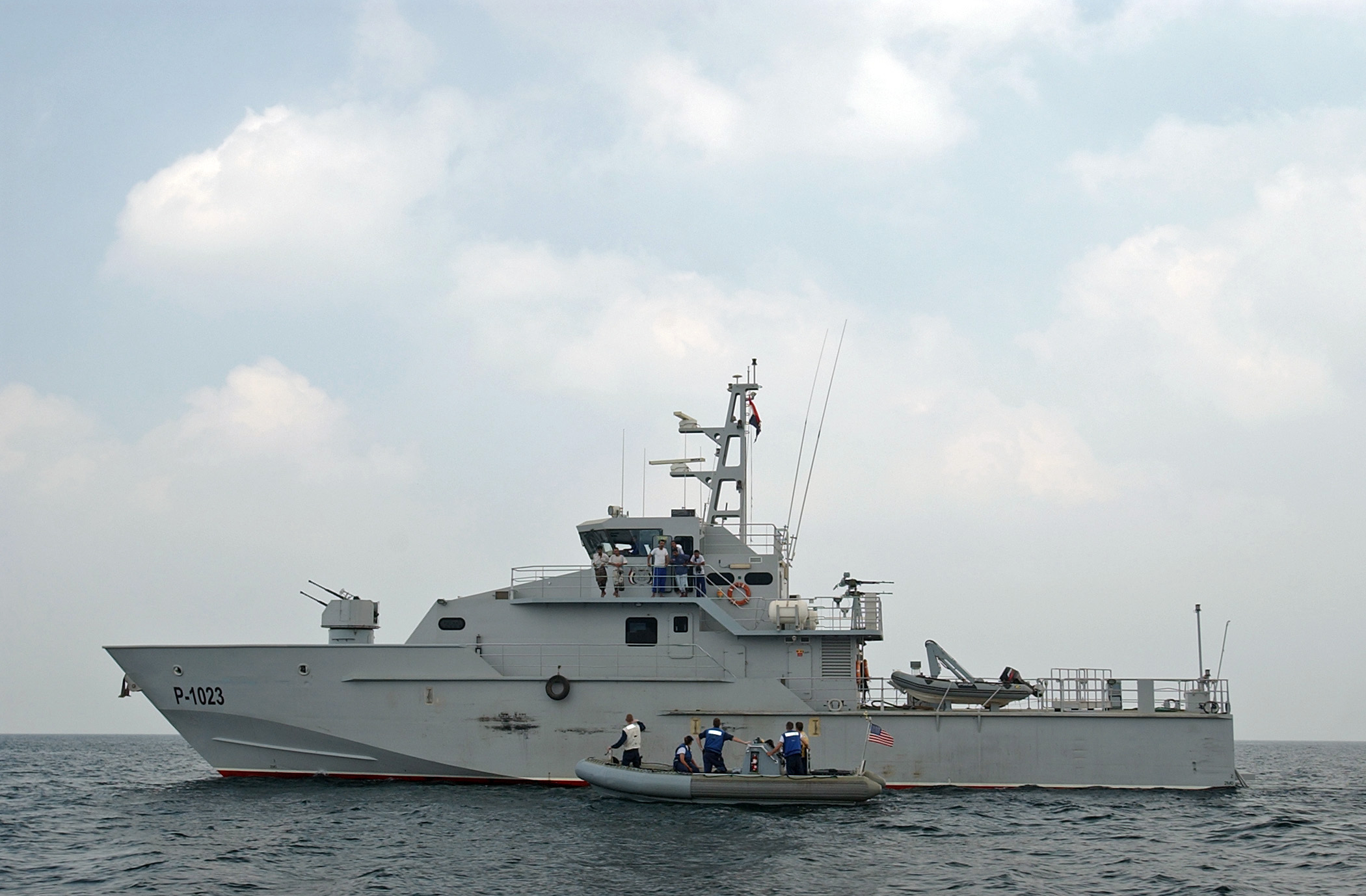 RED SEA (Oct. 2, 2007) - Sailors assigned to guided-missile destroyer USS Bainbridge (DDG 96) consult with members of the Yemeni Coast Guard during their search and rescue operation for survivors off the coast of the Yemeni island of Jabal at-Tair, after the island experienced a massive volcanic erupted Sept. 30. Bainbridge has been searching the area for the past two days. During their efforts they found one Yemeni survivor and rescued the man after reportedly swimming for nearly 20 hours. U.S. Navy Photo By Mass Communication Specialist 3rd Class Vincent J. Street (RELEASED)